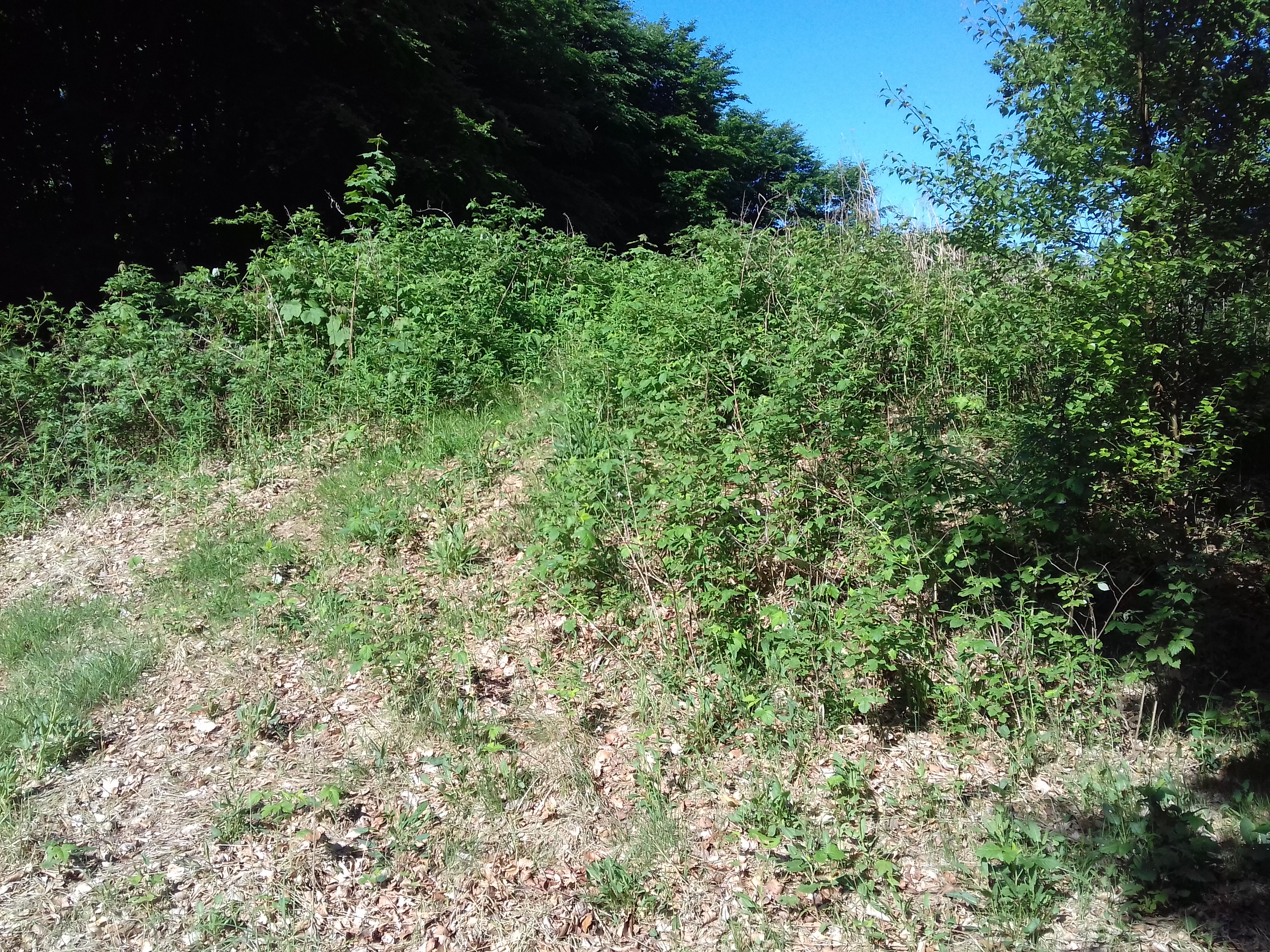 One of the barrows in Hov Daas prehistoric flintmine site, Jutland, Denmark.